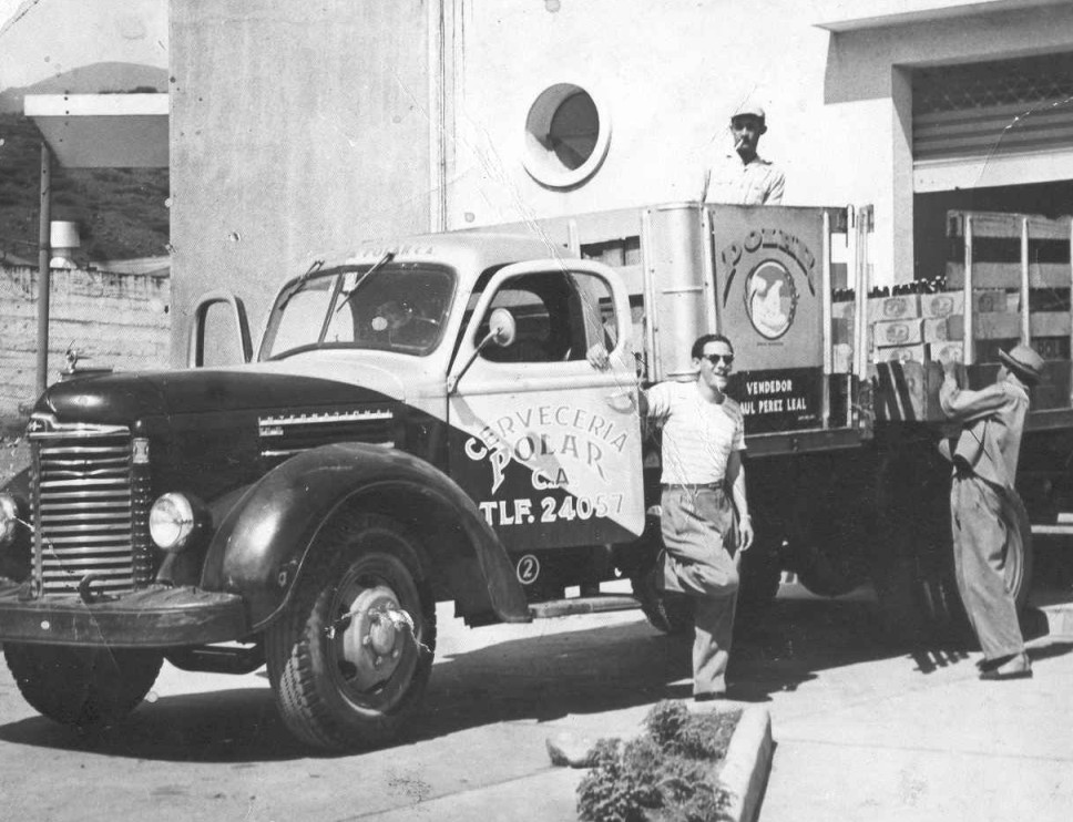 International Harvester KB-6, heavier duty than the lighter KB-1 through KB-5. Built between 1947 and 1949